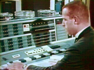 Screen shot from a US Government (NASA) video clip about Project Mercury. The console is part of an IBM 7090 installation at the Goddard Spaceflight Center in Maryland. It can be distinguished from an IBM 7094 console because it lacks the small box that would be added on the upper-right to display 4 additional index registers. Note the 1/2 inch magnetic tape reels laying on top of the console.